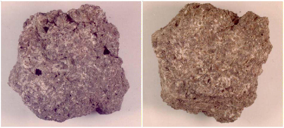 Sample of „pristine“ (i.e. not contaminated by siderophilic elements through meteorites) KREEP basalt (sample no. 15386), collected during Apollo 15 mission at Hadley-Apennine region near Apennine Mountains. The size of the sample is about 2 cm and its weight is 7.5 grams. The rock’s age is about 3.9 Billion years.